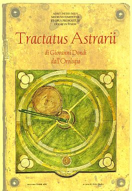 Book cover